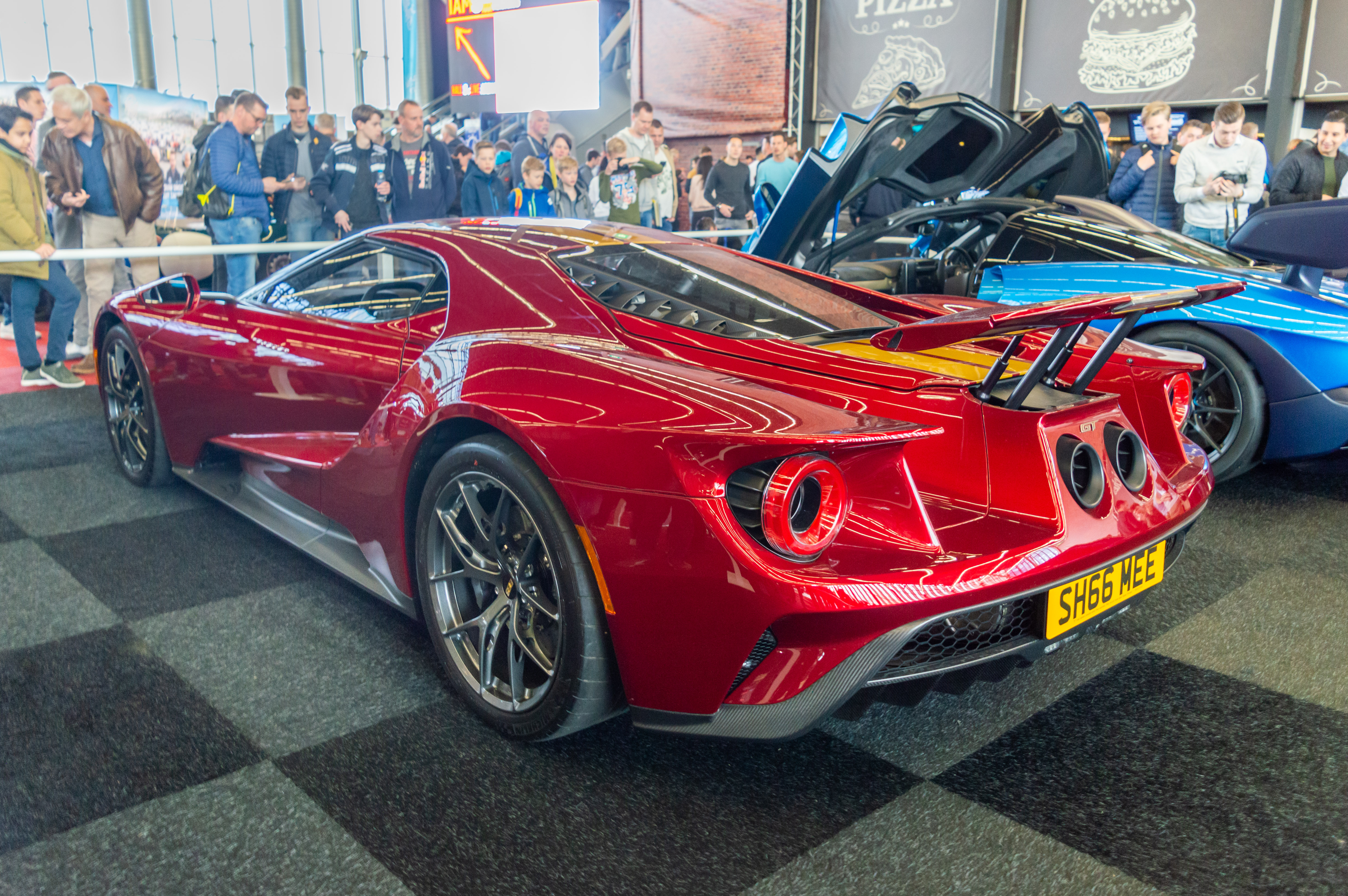 Ford GT owned by Tim Burton or "Shmee150" at the 2019 International Amsterdam Motor Show.